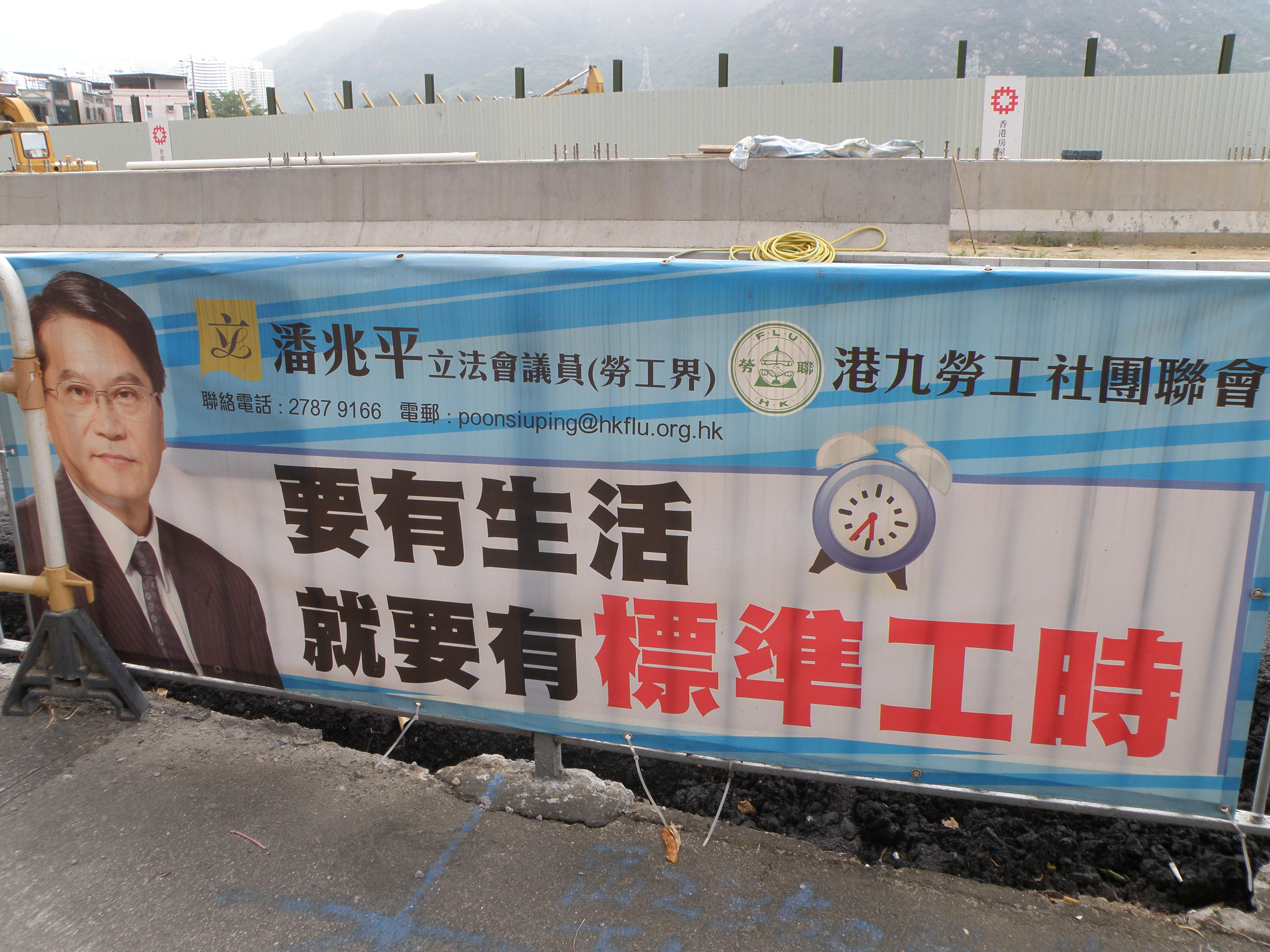 Poon Siu-ping, a member of Legislative Council of Hong Kong.